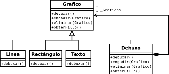 Un diagrama de exemplo da aplicación do patrón composite